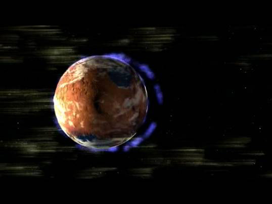 Artist's concept: Disappearance of the ancient magnetic field may have triggered the loss of the Martian atmosphere.